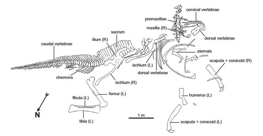 Skeleton in situ of holotype of Olorotitan arharensis Godefroit, Bolotsky & Alifanov, 2003 (AEHM 2/845). Upper Cretaceous of Kundur (Russia).